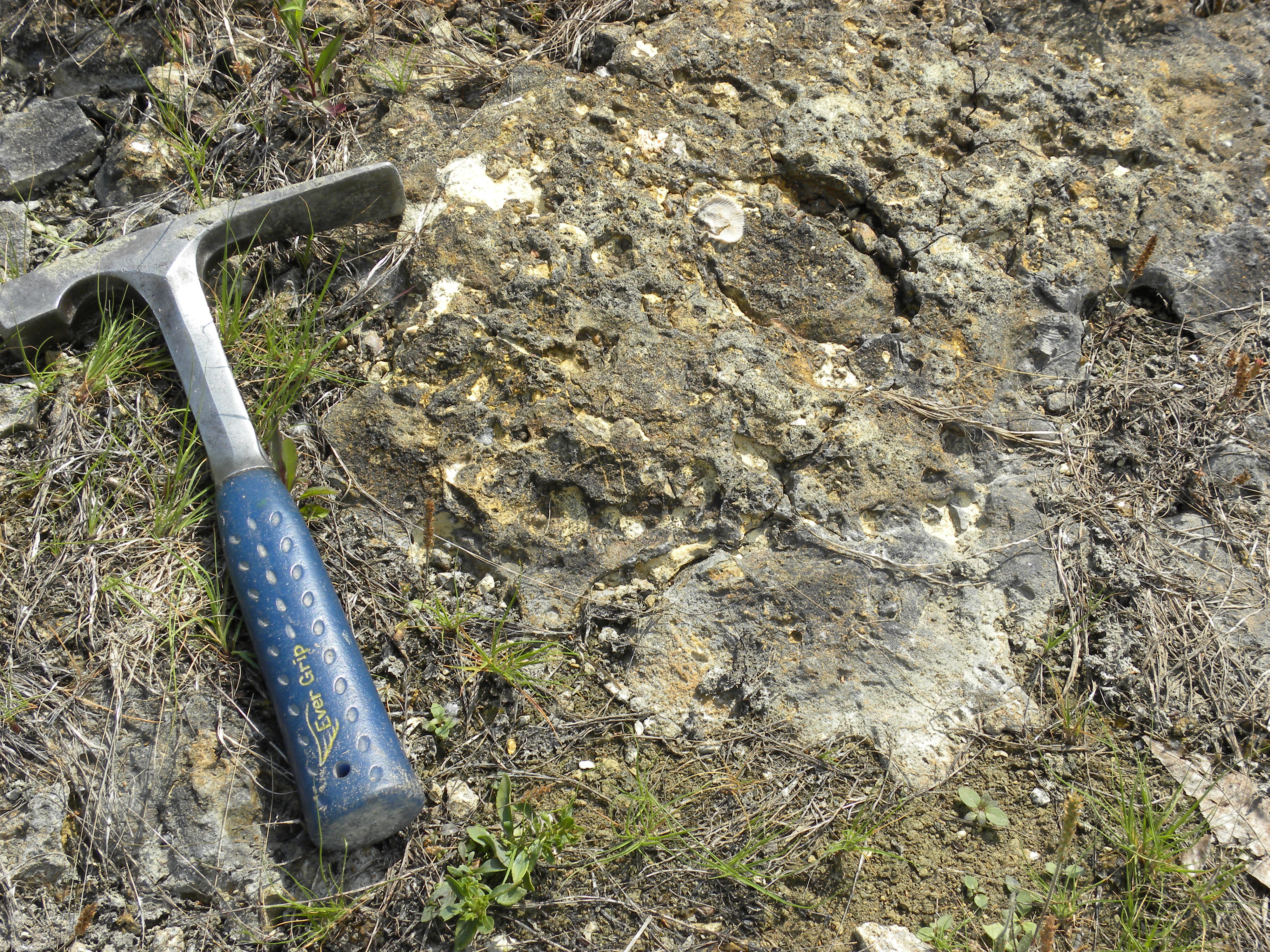 Ripley Formation (Maastrichtian, Upper Cretaceous) rockground exposed near Greenville, Alabama.